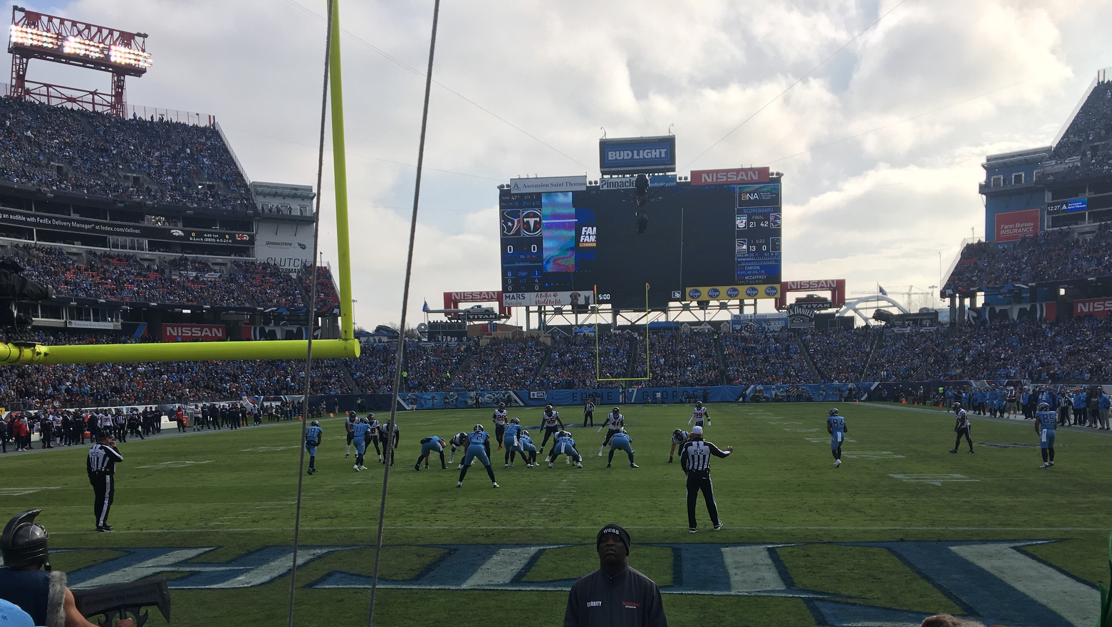 The Tennessee Titans offense, led by Ryan Tannehill, prepare to snap the ball vs. the Houston Texans in Week 15 of the 2019 season on December 15 at Nissan Stadium.